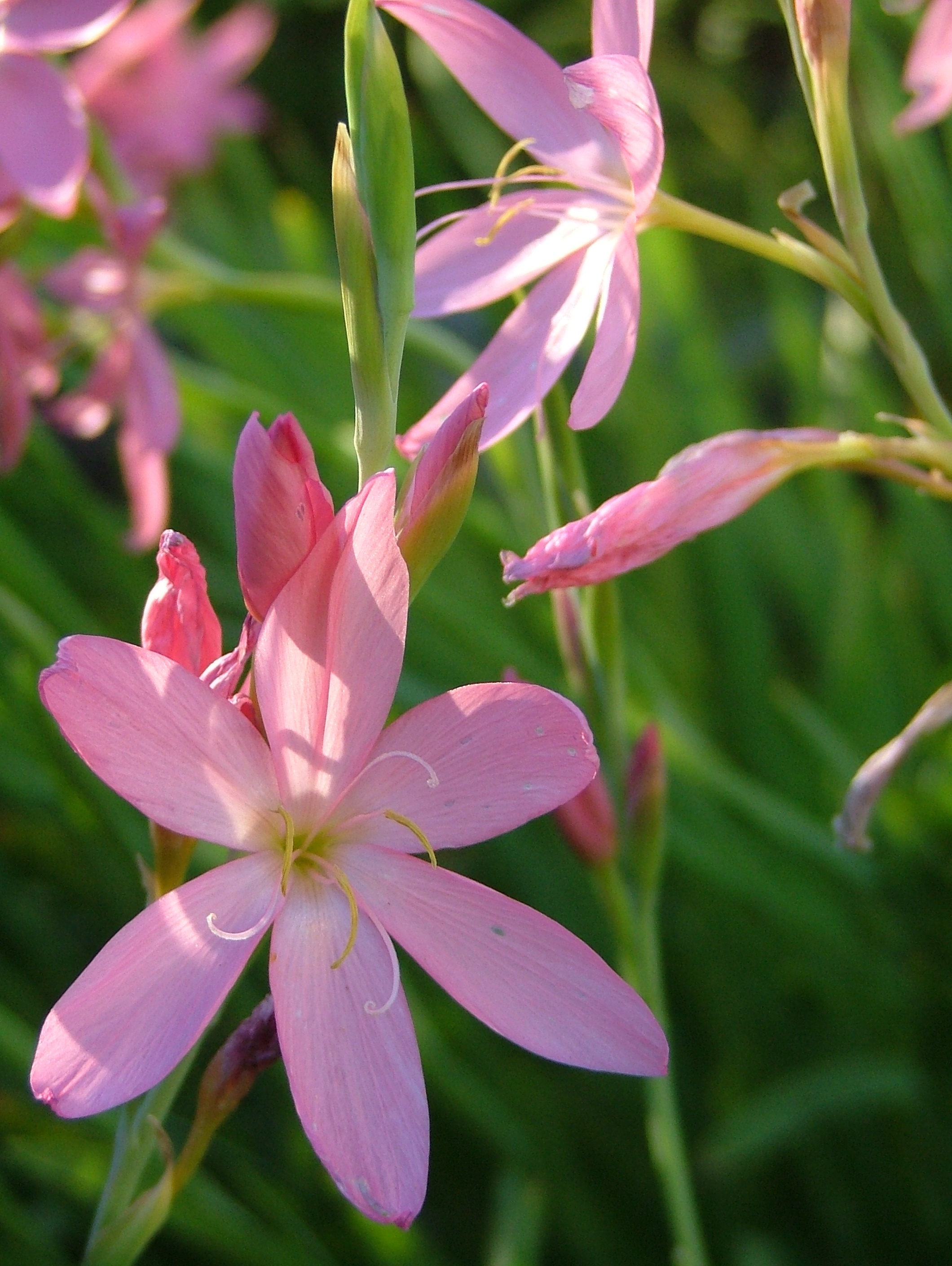 A photograph of Hesperantha coccinea flower.